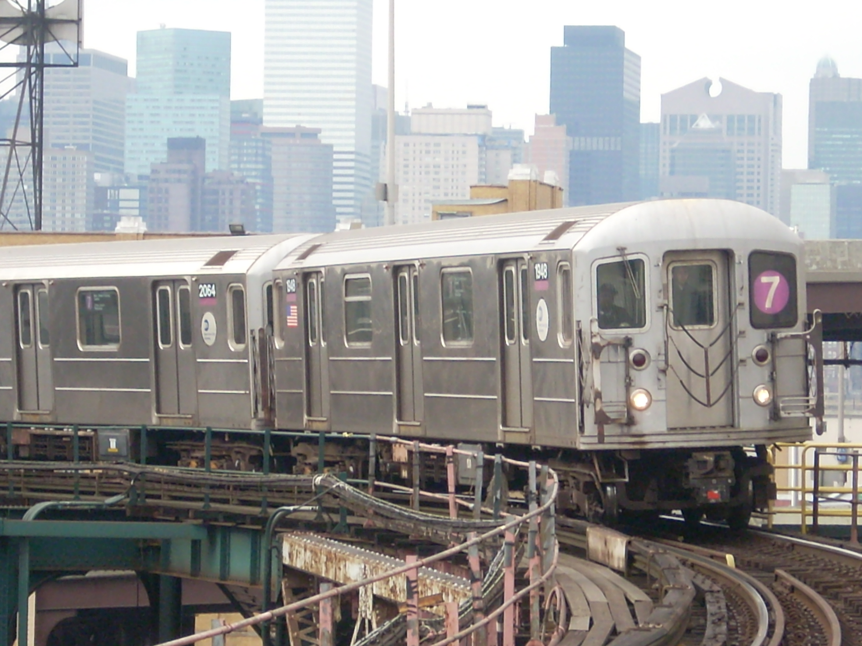 R62A #1948 Flushing-bound 7 train going around the curve at Queensboro Plaza.